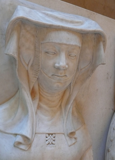 Recumbent effigy of Catherine d'Alençon († 1462), commissioned while she was still alive. White marble, Paris, 1412. From the Carthusian church in Paris, destroyed during the French Revolution.